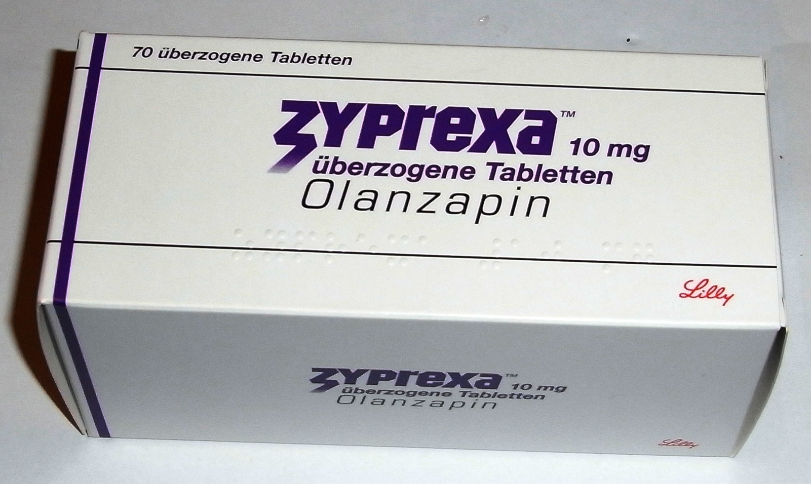 Zyprexa